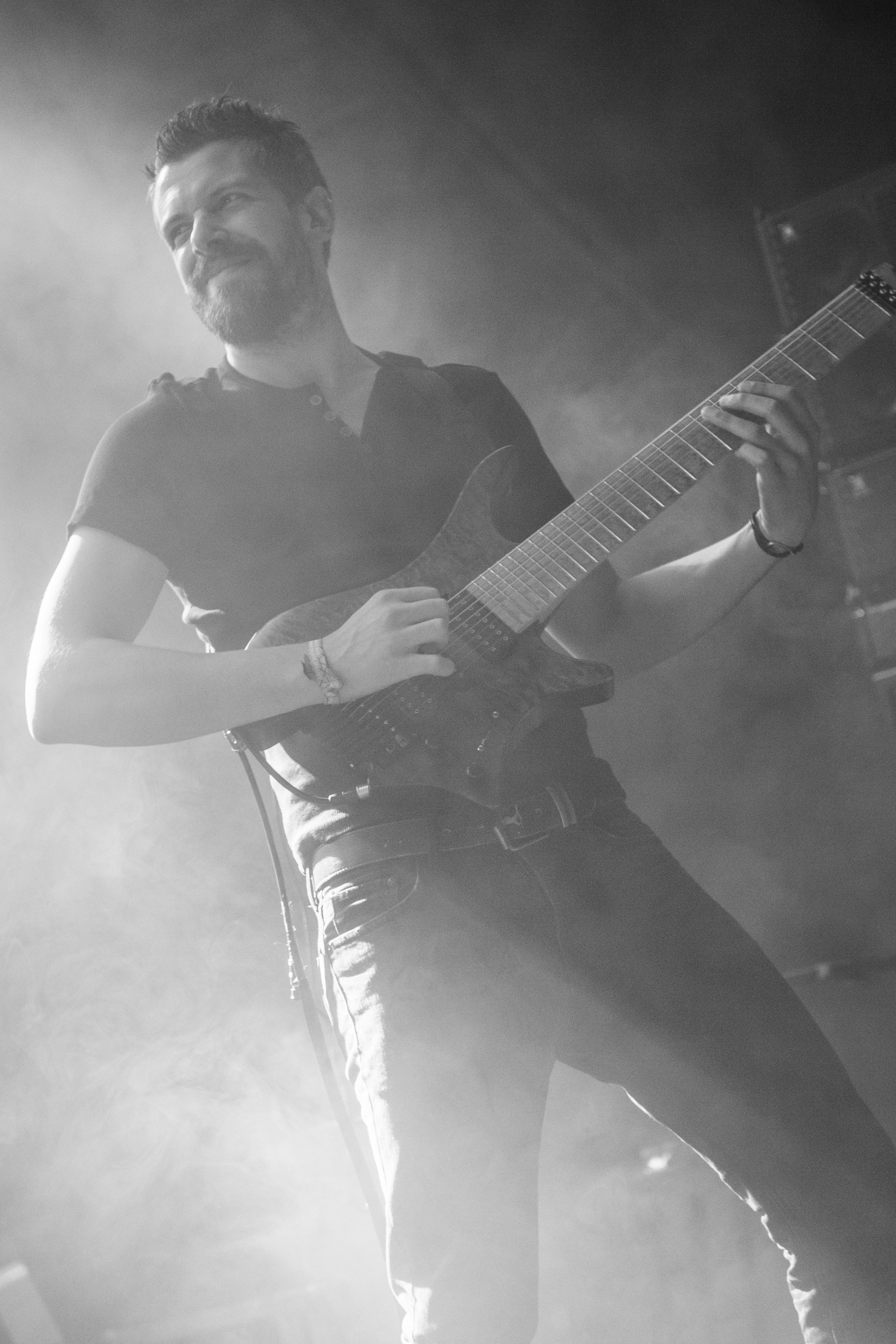 Haken performing live at Euroblast Festival 2015, Cologne, Germany